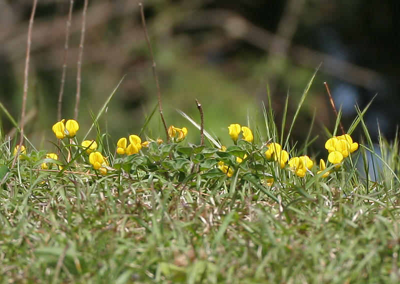 Bird's-foot Trefoil or Birdfoot Deervetch Lotus corniculatus? in Kullu District of Himachal Pradesh, India.